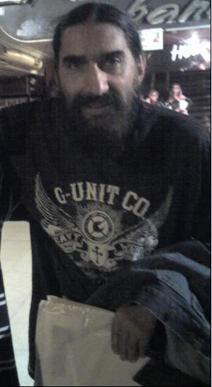 Photo (Edited) of Hugo Varela.